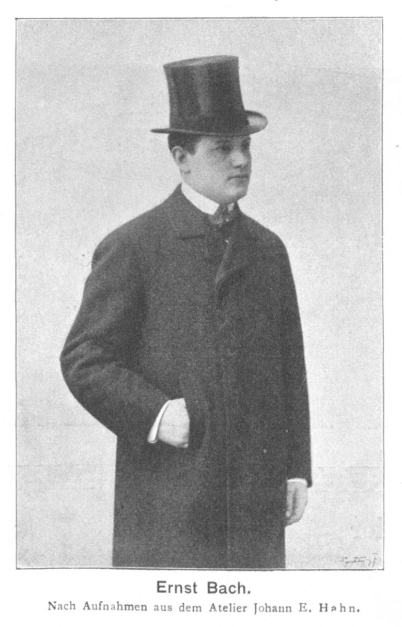 Photograph of Ernst Bach (1876-1929), German actor and playwright.